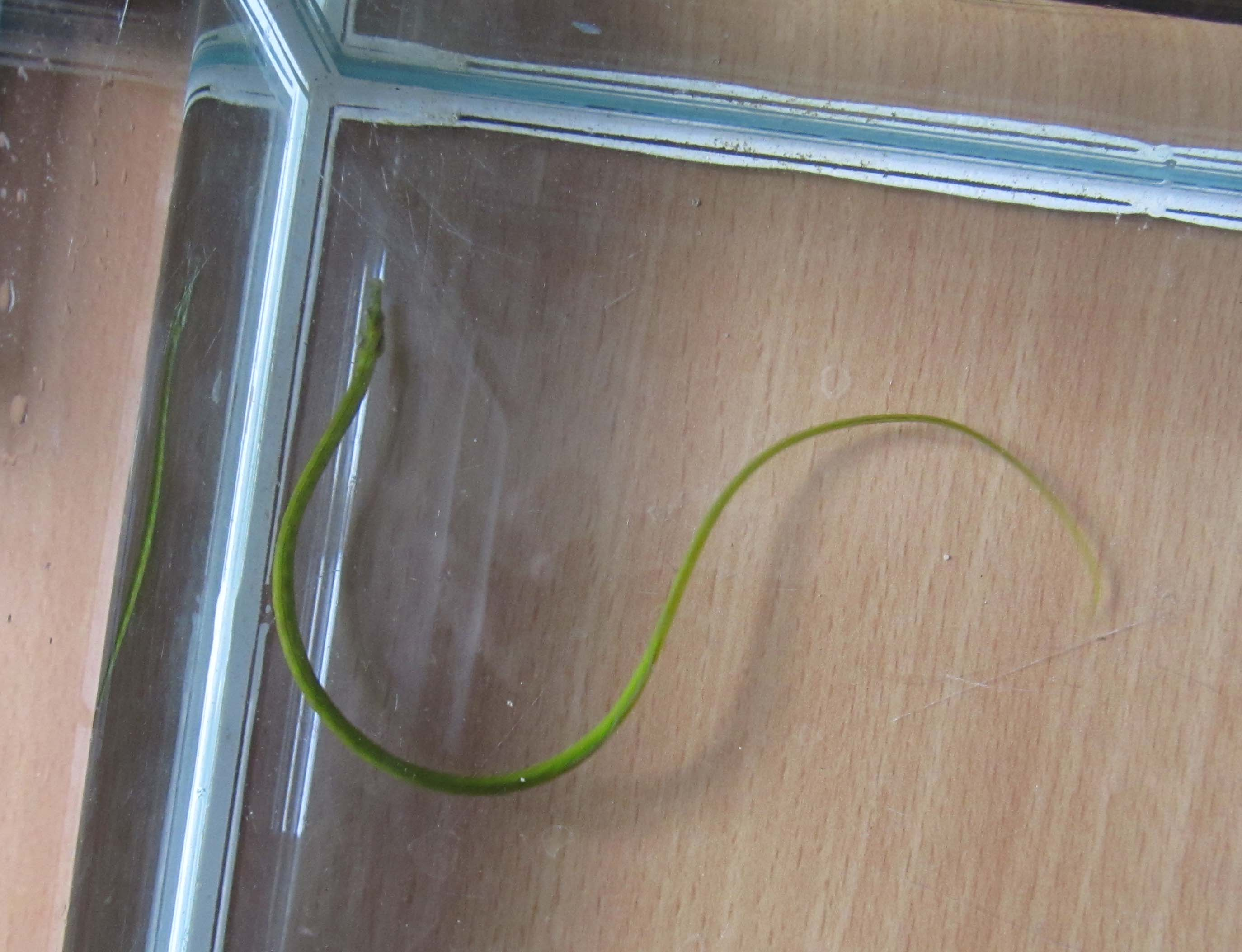 The Straightnose pipefish (Nerophis ophidion) from the Hryhorivsky Estuary, Black Sea, Ukraine